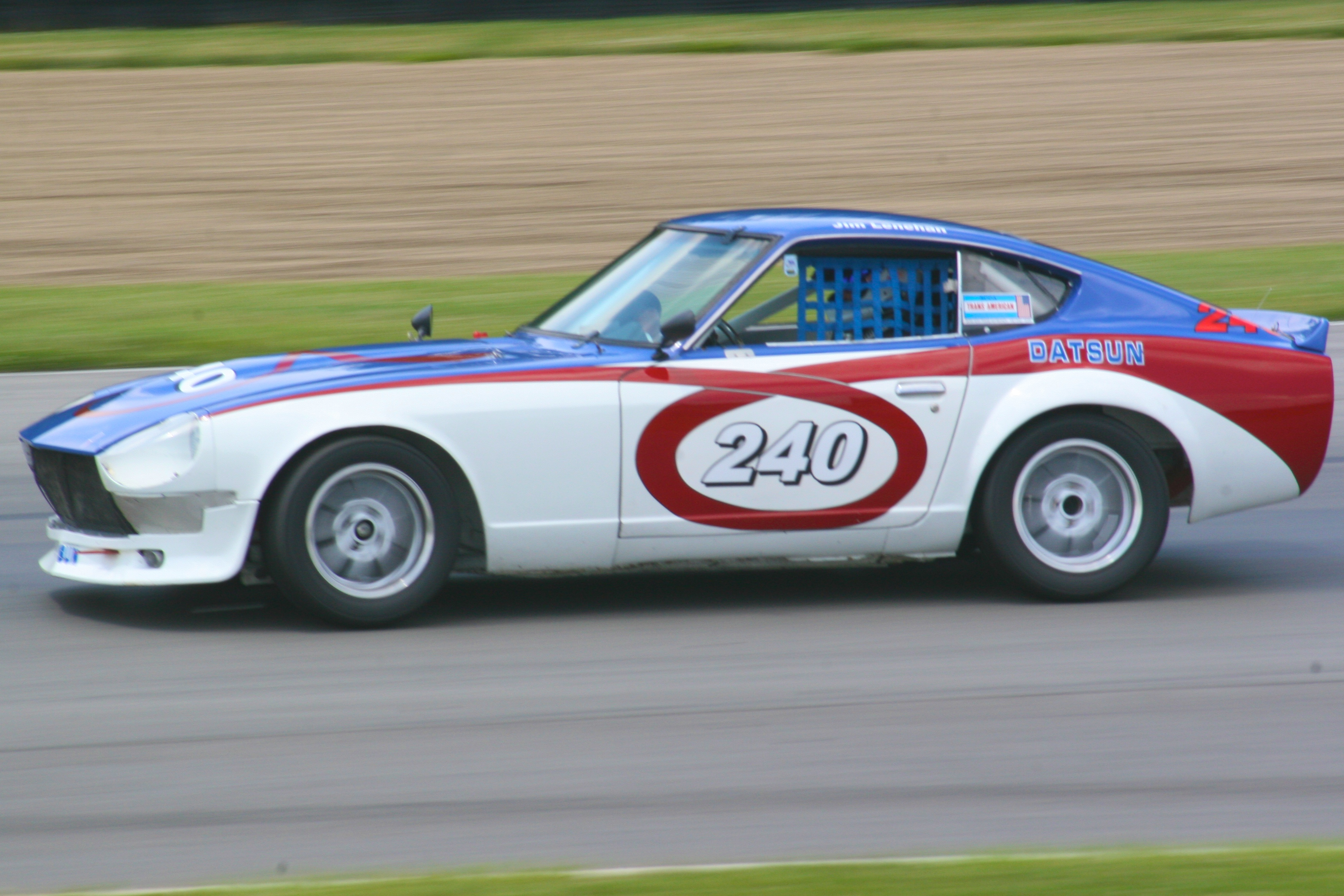 240 - 1971 Datsun 240Z (2798cc) Driven by Jim Leneham